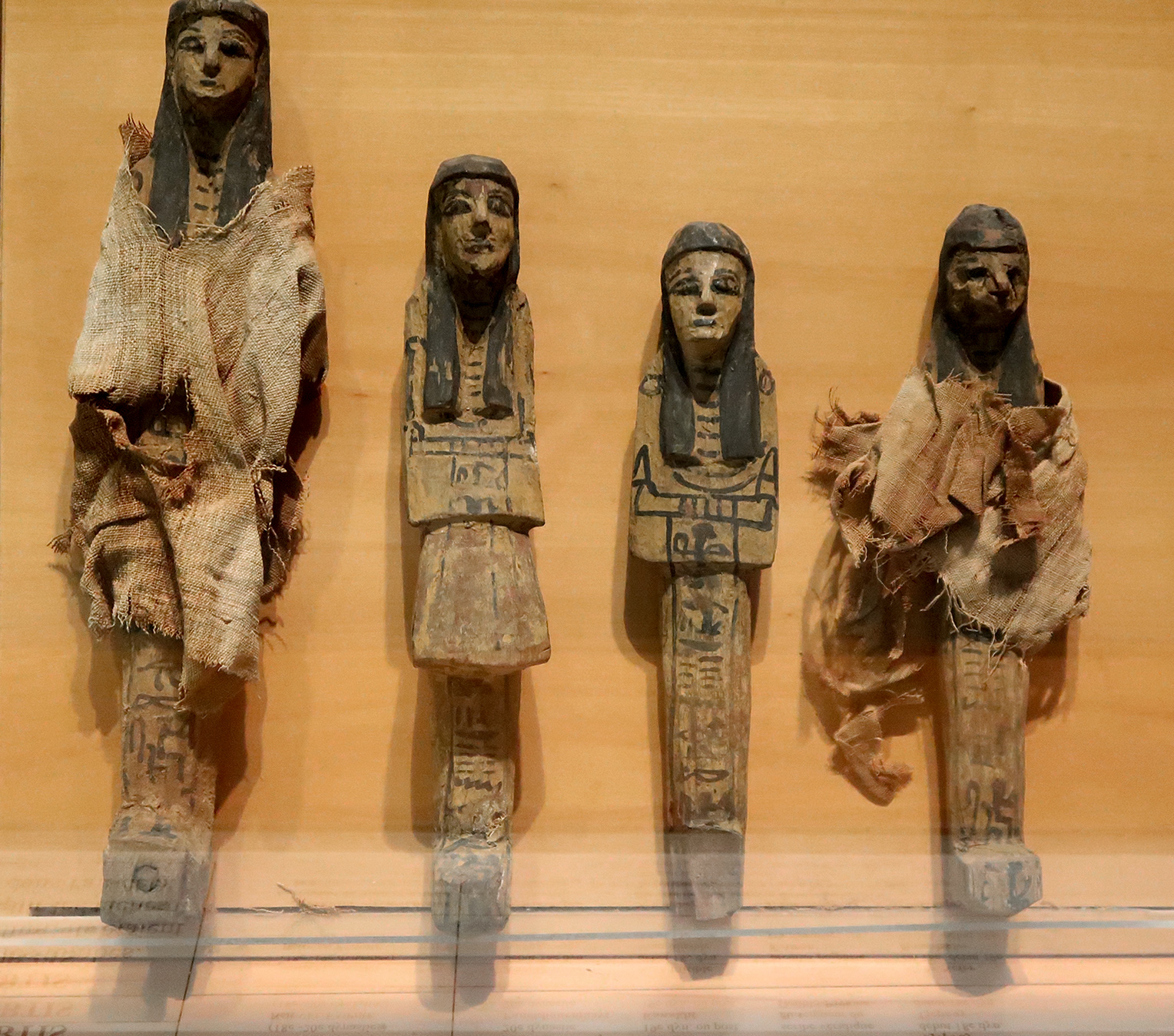 Ushabtis, funeral servants of singer Nybakshepsy. End of Second Intermediate Period - beginning of the New Kingdom, c. 1550 BCE. Painted wood (and linen). From left to right: inv. 1969-490: H. 25.2 cm; 1969-439: H. 25.2 cm; 1969-438: H. 19.15 cm; 1969-437. Lyon Museum of Fine Arts